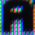 High-detail picture of the SLCD display in newer models of the HTC Desire Android smartphone